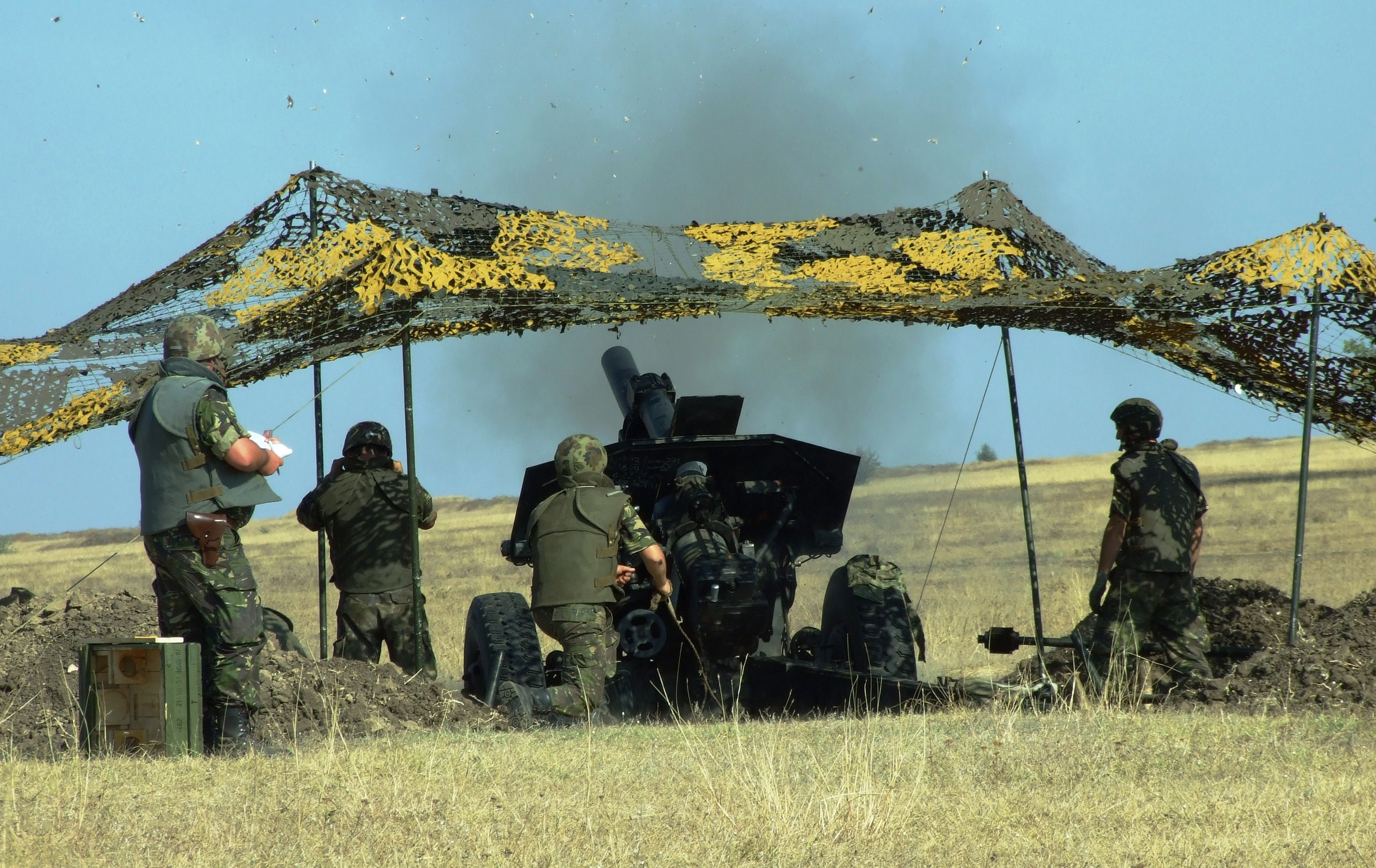 Soldiers of the 15th Mechanized Brigade during training.